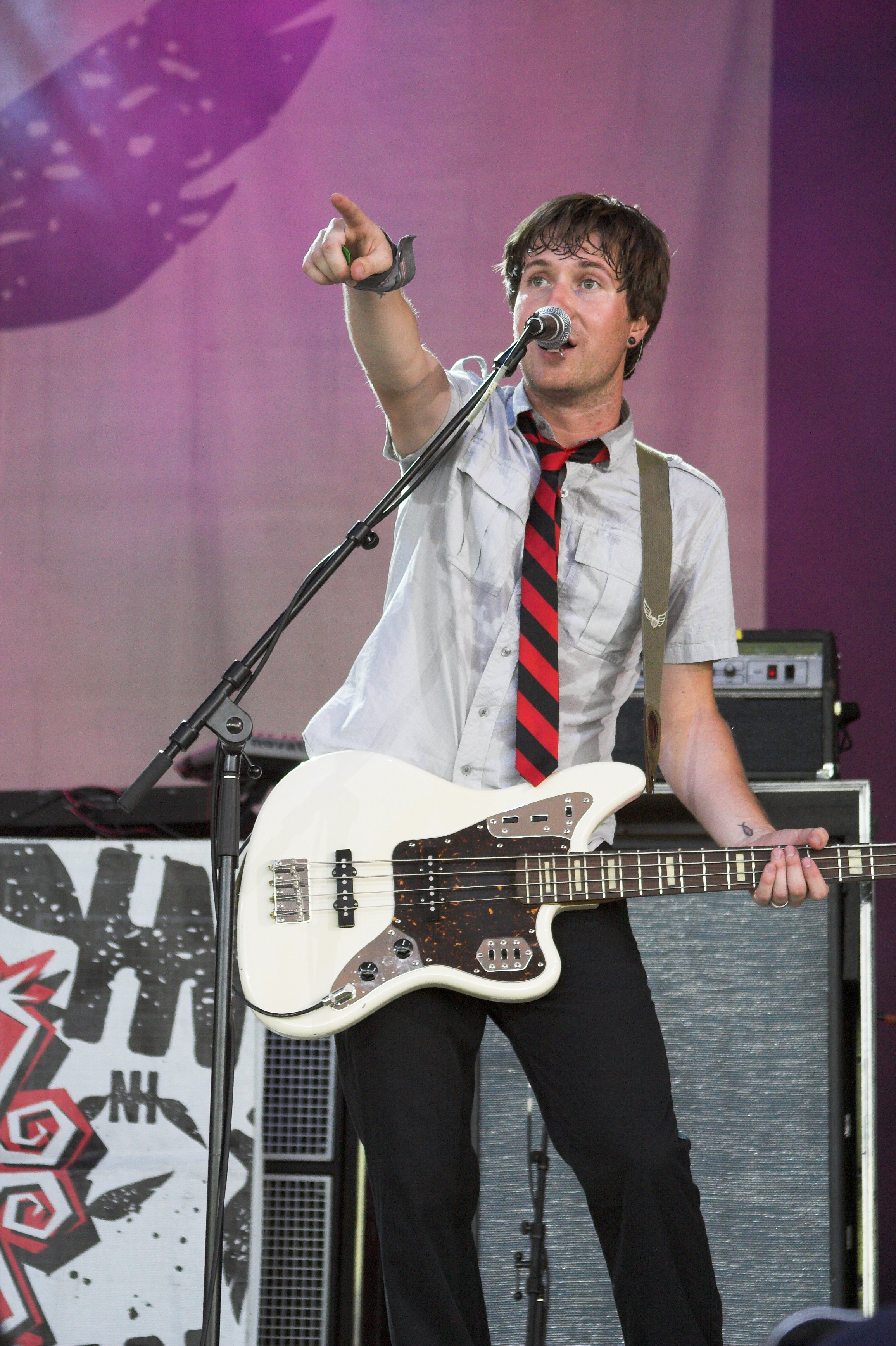 Daniel Biro of Hawk Nelson performing at Wonder Jam 2009.